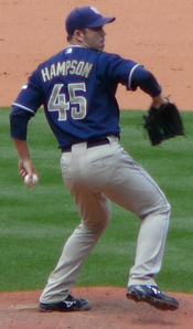 Picture I took of Justin Hampson on 5-10-07 23:39, 13 May 2007 . . Chrisjnelson . . 175×298 (89,031 bytes)